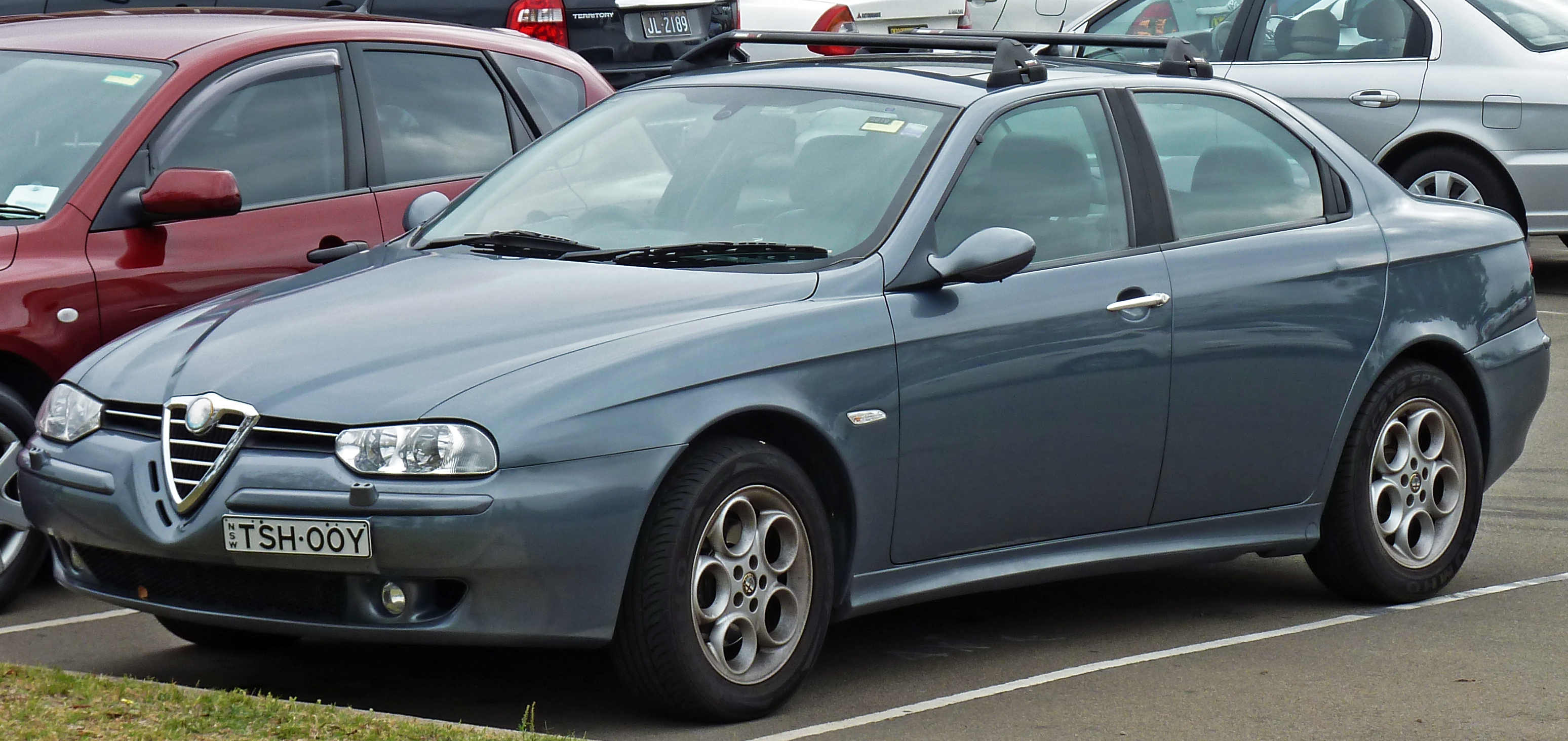 2002–2003 Alfa Romeo 156 JTS Selespeed sedan. Photographed in Sandringham, New South Wales, Australia.